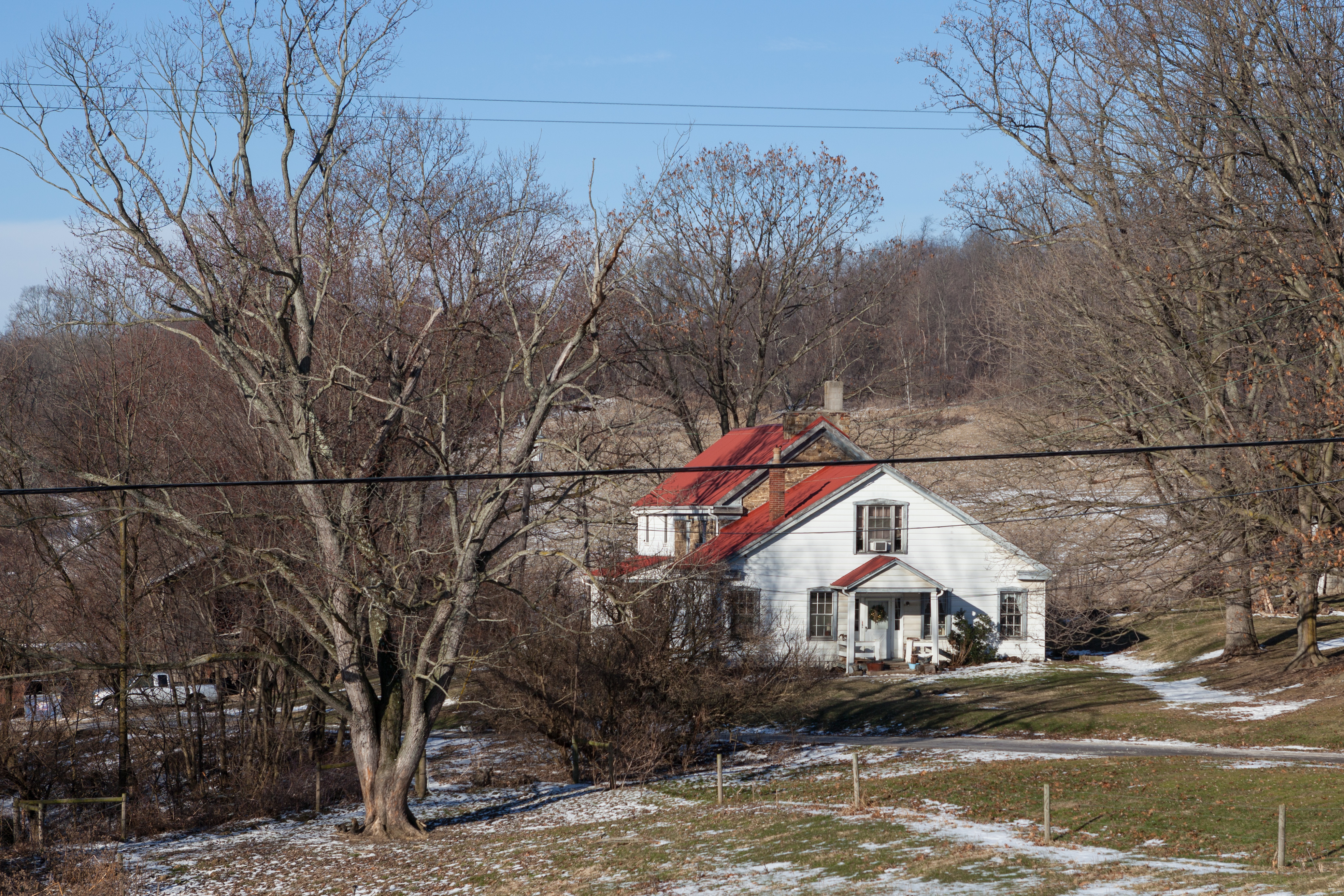 Farmhouse on the James Thome Farm in North Strabane Township, Pennsylvania